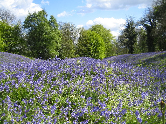 Coed-y-Bwnydd. Iron age fort whose ramparts look like waves in May when the bluebells cover the whole site.